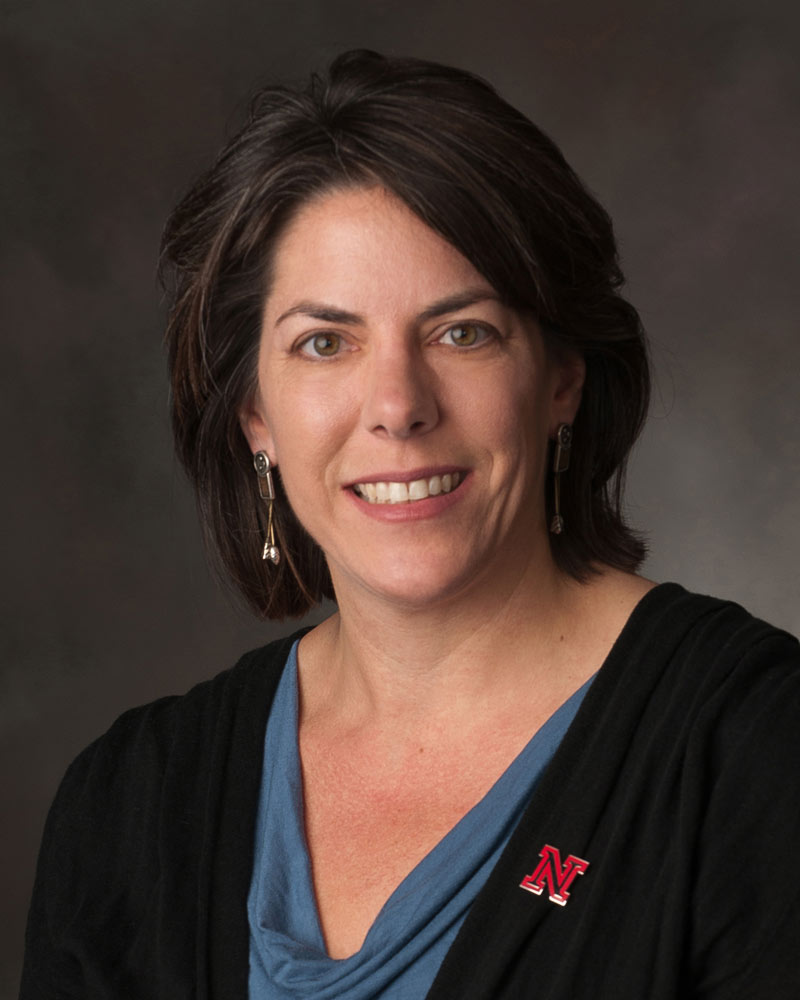 Judy L. Walker, Douglass Professor of Mathematics at the University of Nebraska-Lincoln